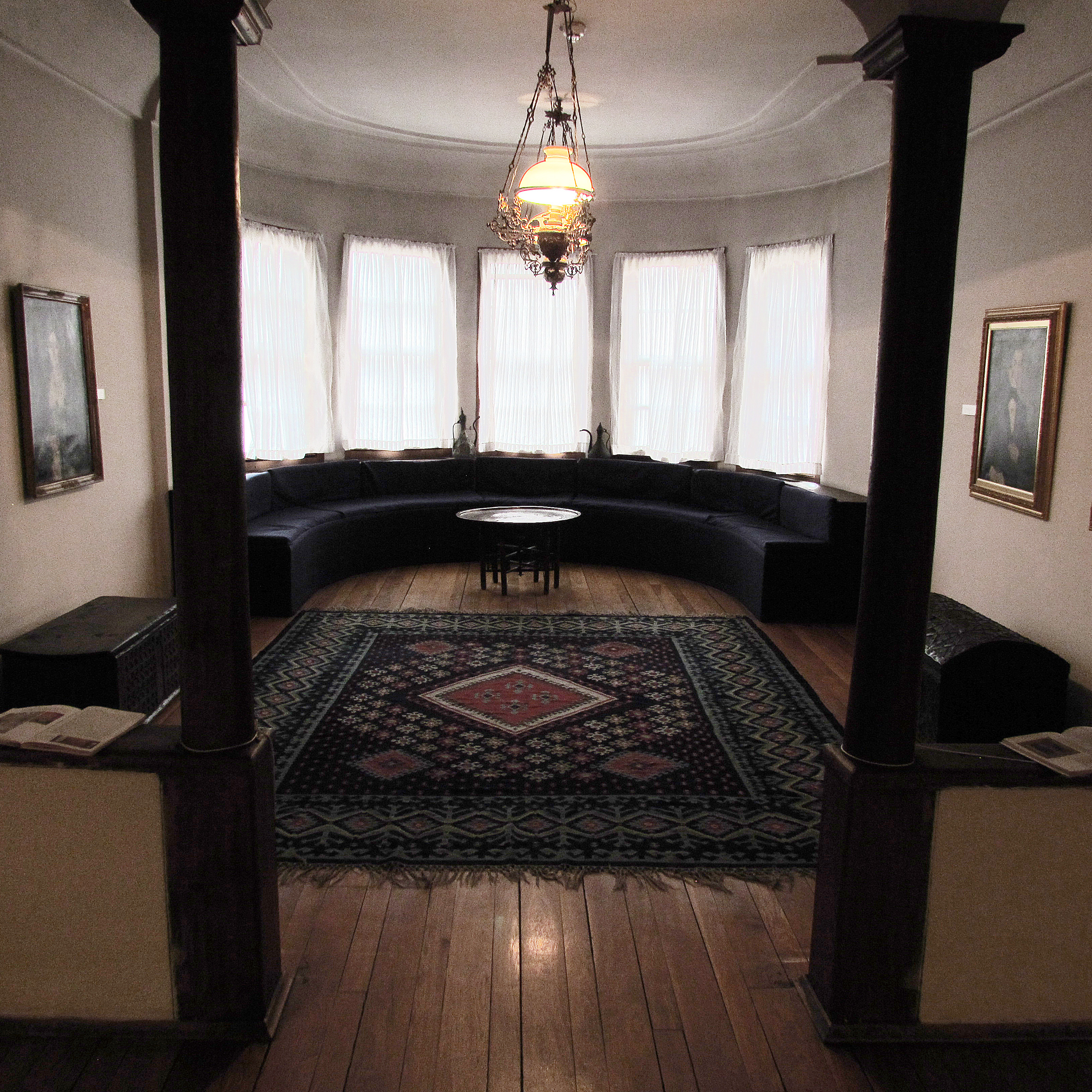 Divanhana, Princess Ljubica's Residence, first floor